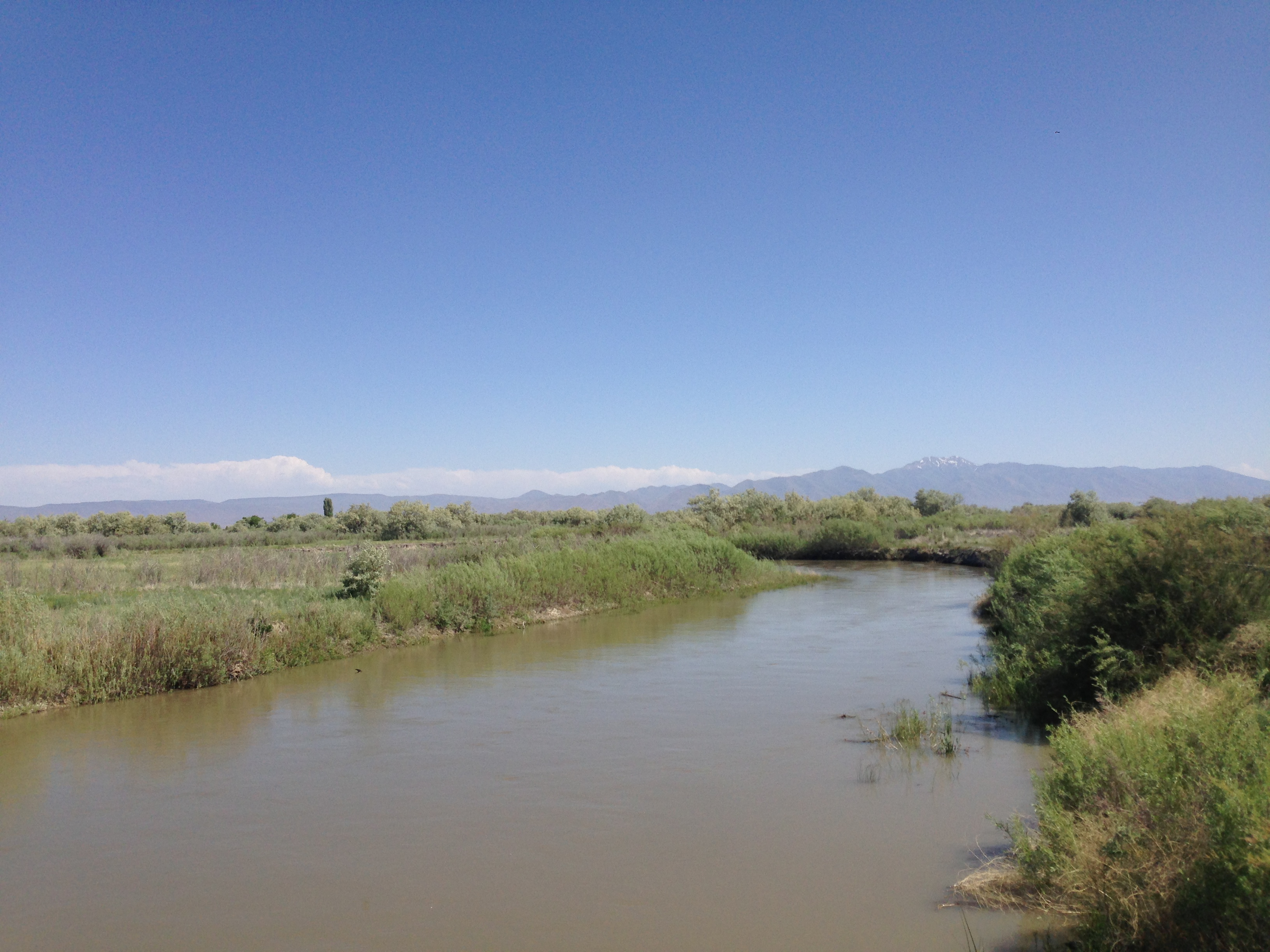 View up the Humboldt River from Nevada State Route 806 in Battle Mountain, Nevada